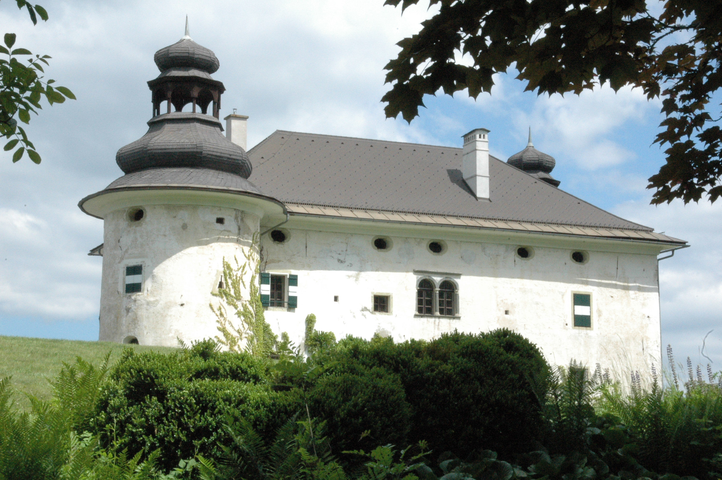 Castle Gradisch at Gradisch #1, municipality Feldkirchen, district of Feldkirchen, Carinthia / Austria / EU